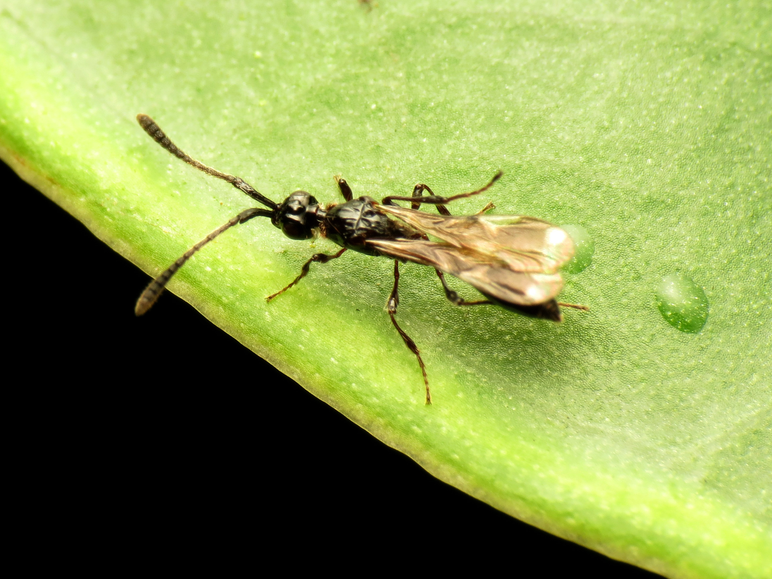 Little Diapriid Wasp. La Fortuna de San Carlos, Provincia de Alajuela, Costa Rica.